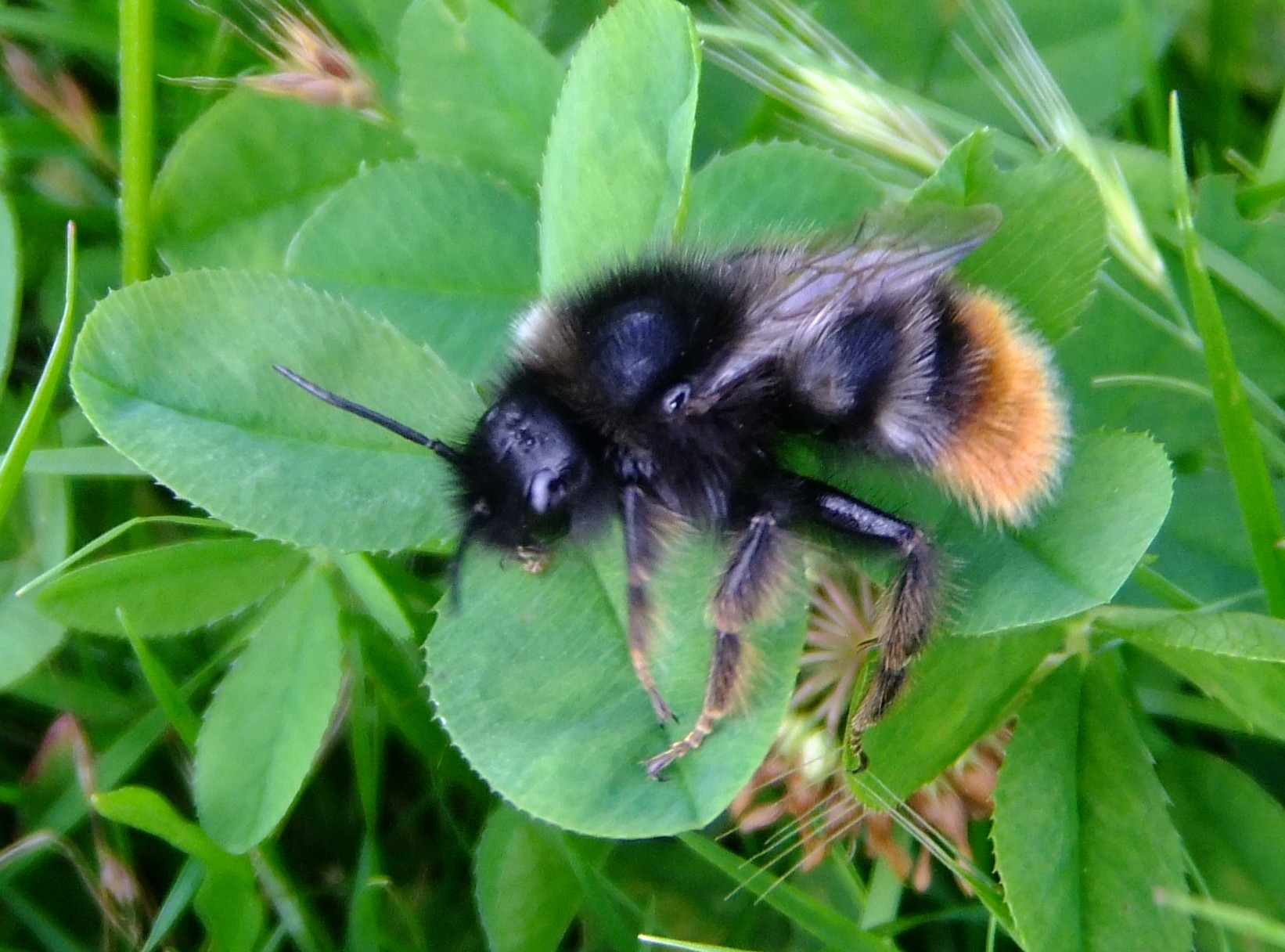 ID provided by Beewatch submission